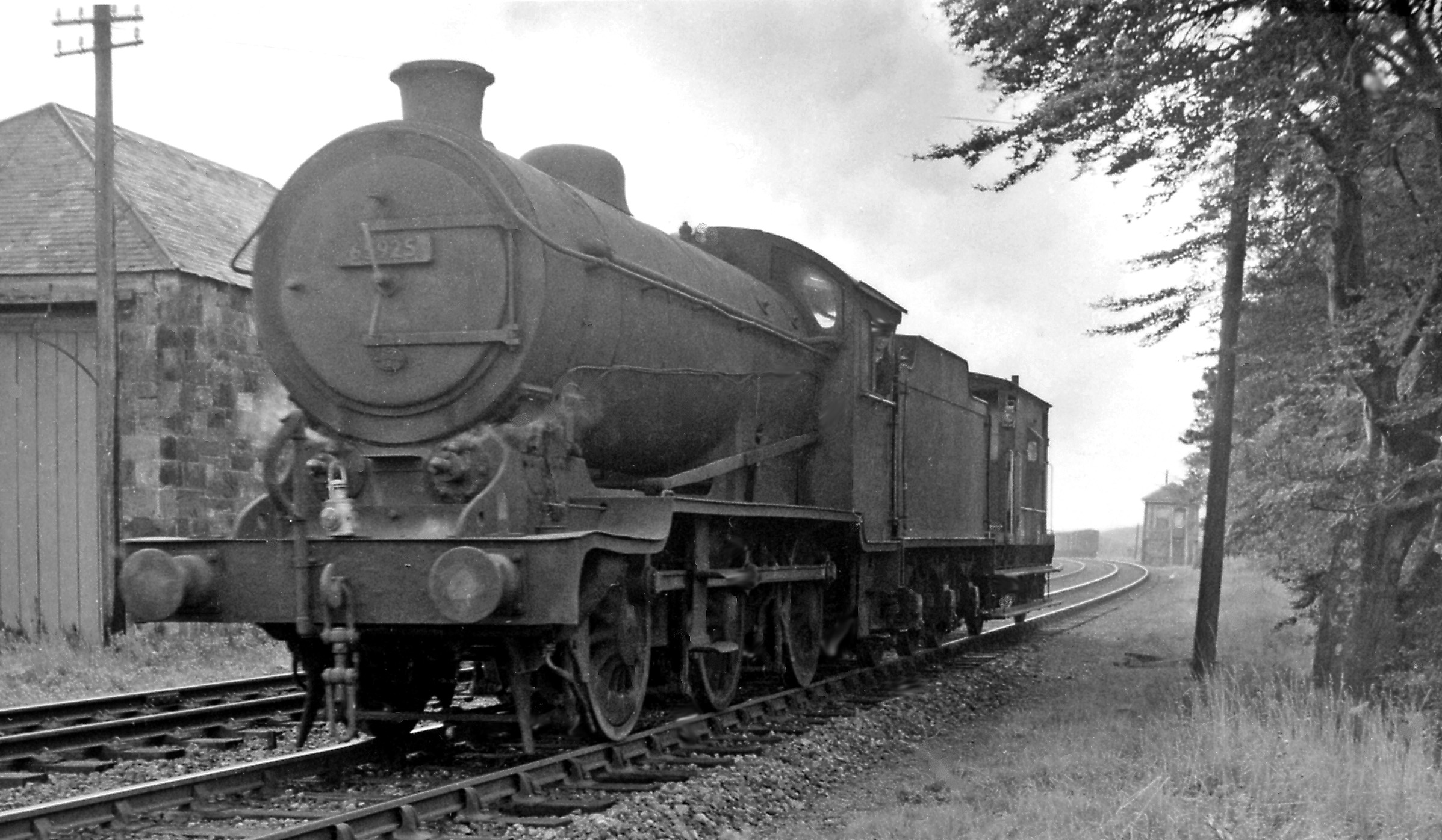 Site of Forest Mill Station, with engine-&-brake. View eastward, towards Alloa and Stirling; ex-North British Stirling & Dunfermline line. Although Forest Mill station was closed to passengers from 22/9/30, the service between Alloa and Dunfermline continued until 7/10/68, goods until 6/10/79. Here in 1962, Gresley J38 0-6-0 No. 65925 is - nominally - on a goods working.